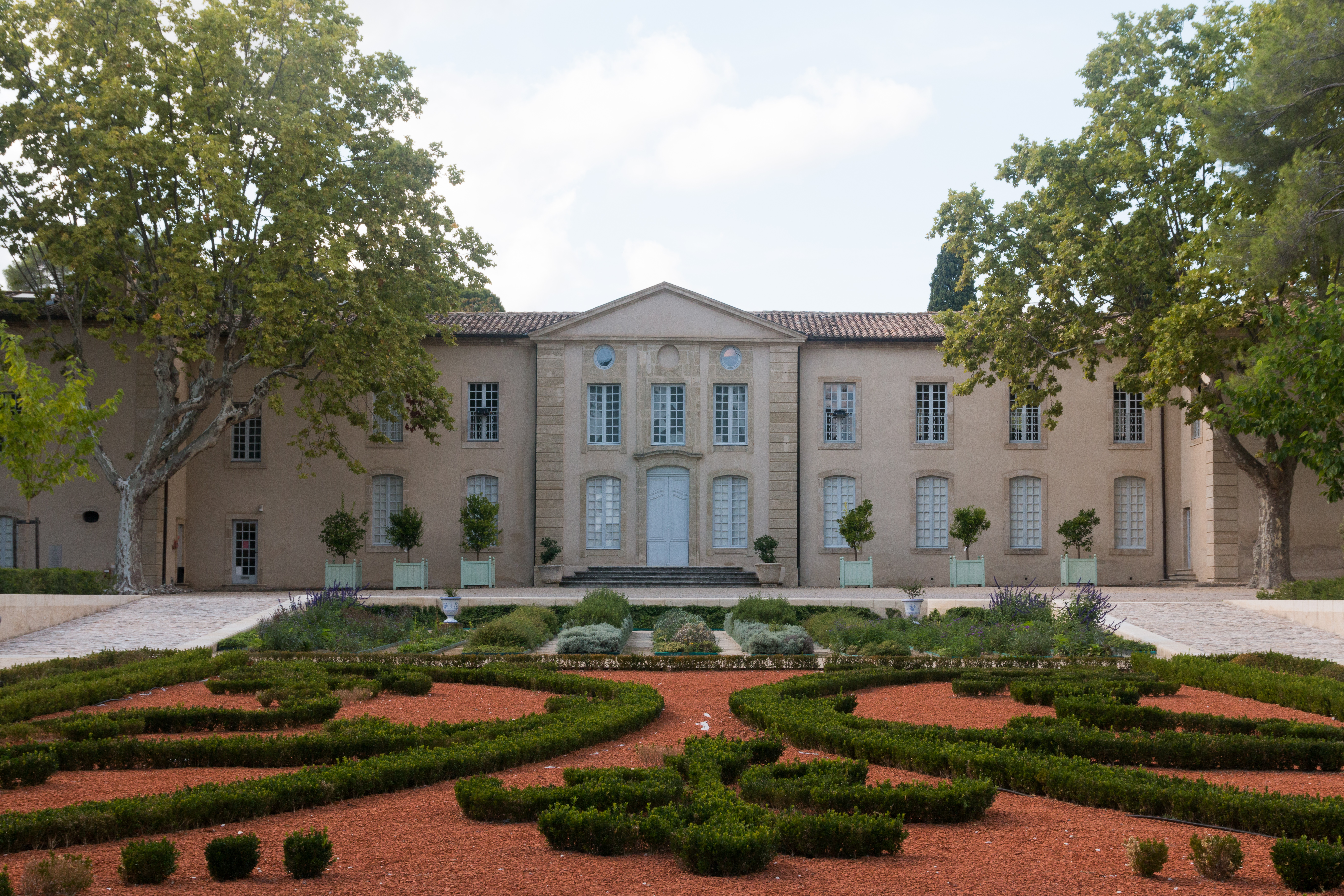 tHe Castle of Ô seen from the St. ferréol bassin.